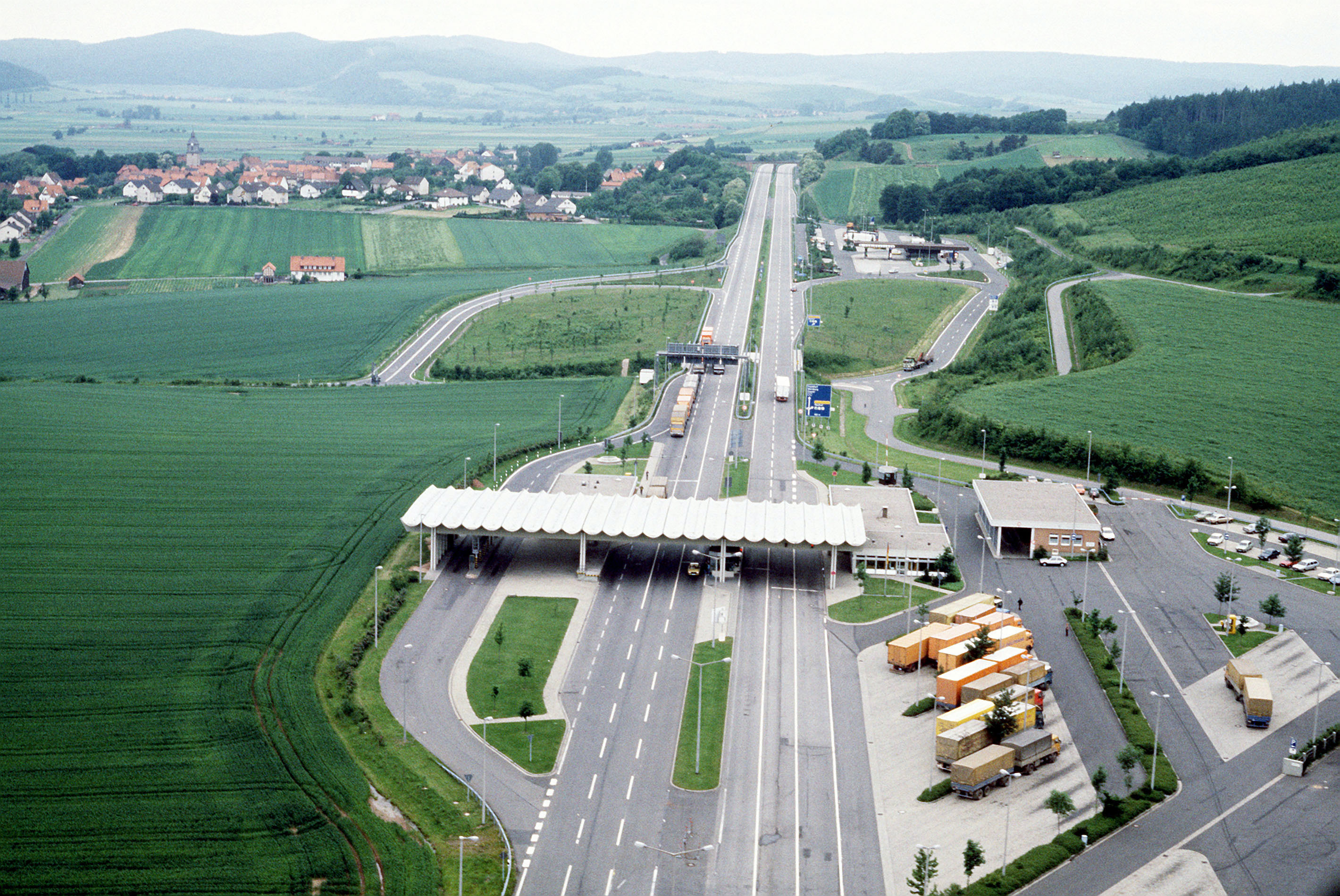 West German border crossing point at Herleshausen, Hesse, looking west